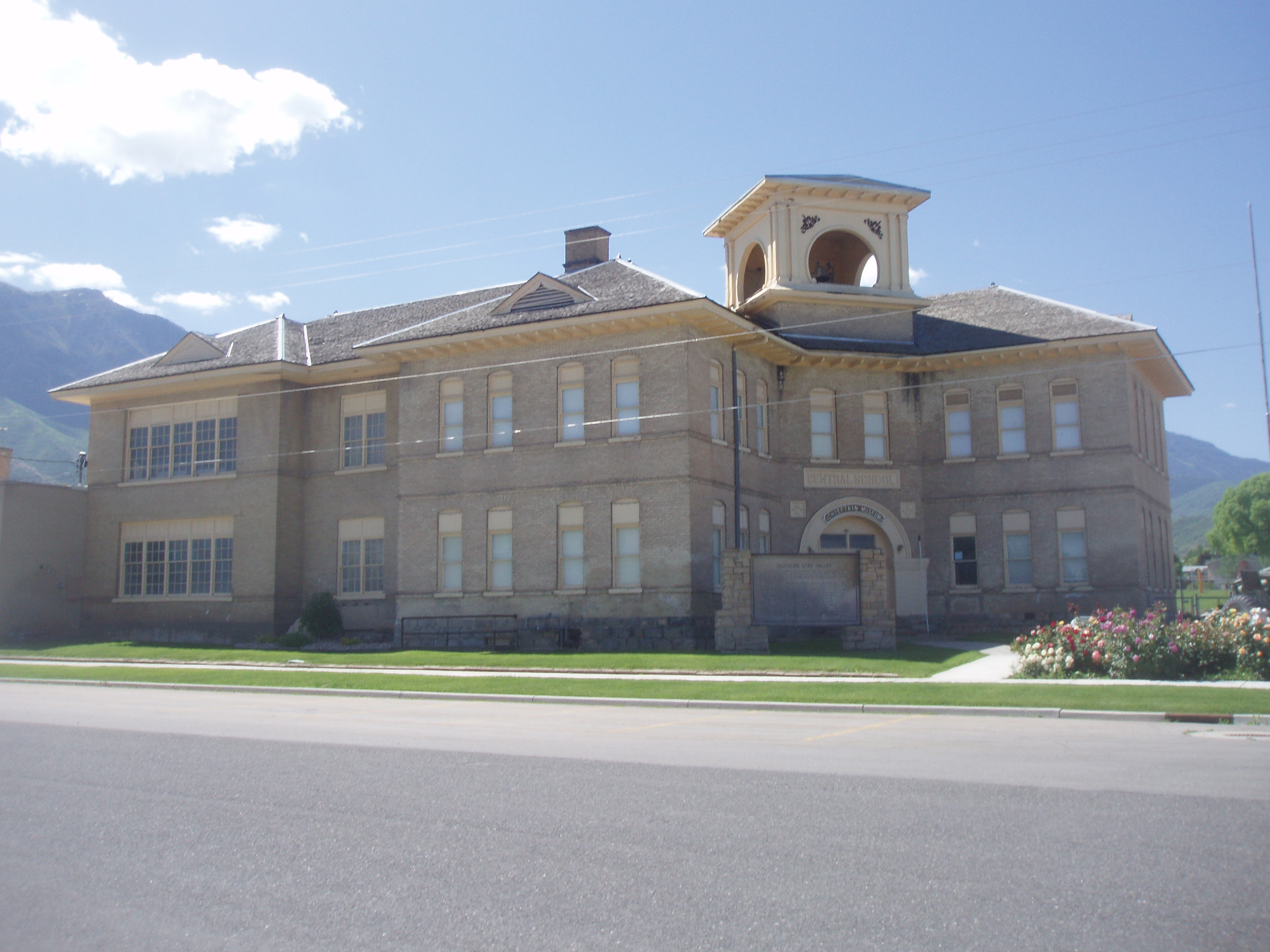 The former Santaquin Elementary School in Santaquin, Utah, United States, now the Chieftain Museum.